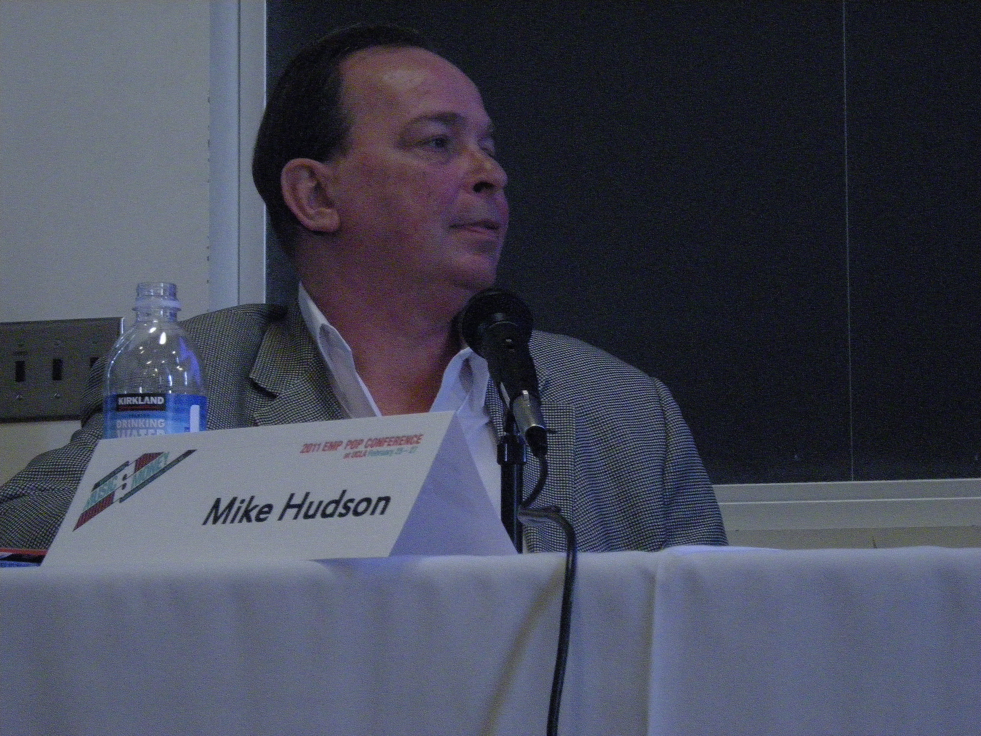 Mike Hudson of the Pagans, now a writer end editor, at the 2011 Pop Conference at UCLA.